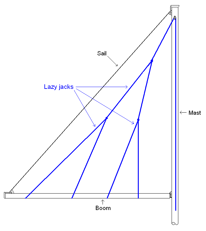 Diagram showing typical application of lazy jacks to a leg-of-mutton sail